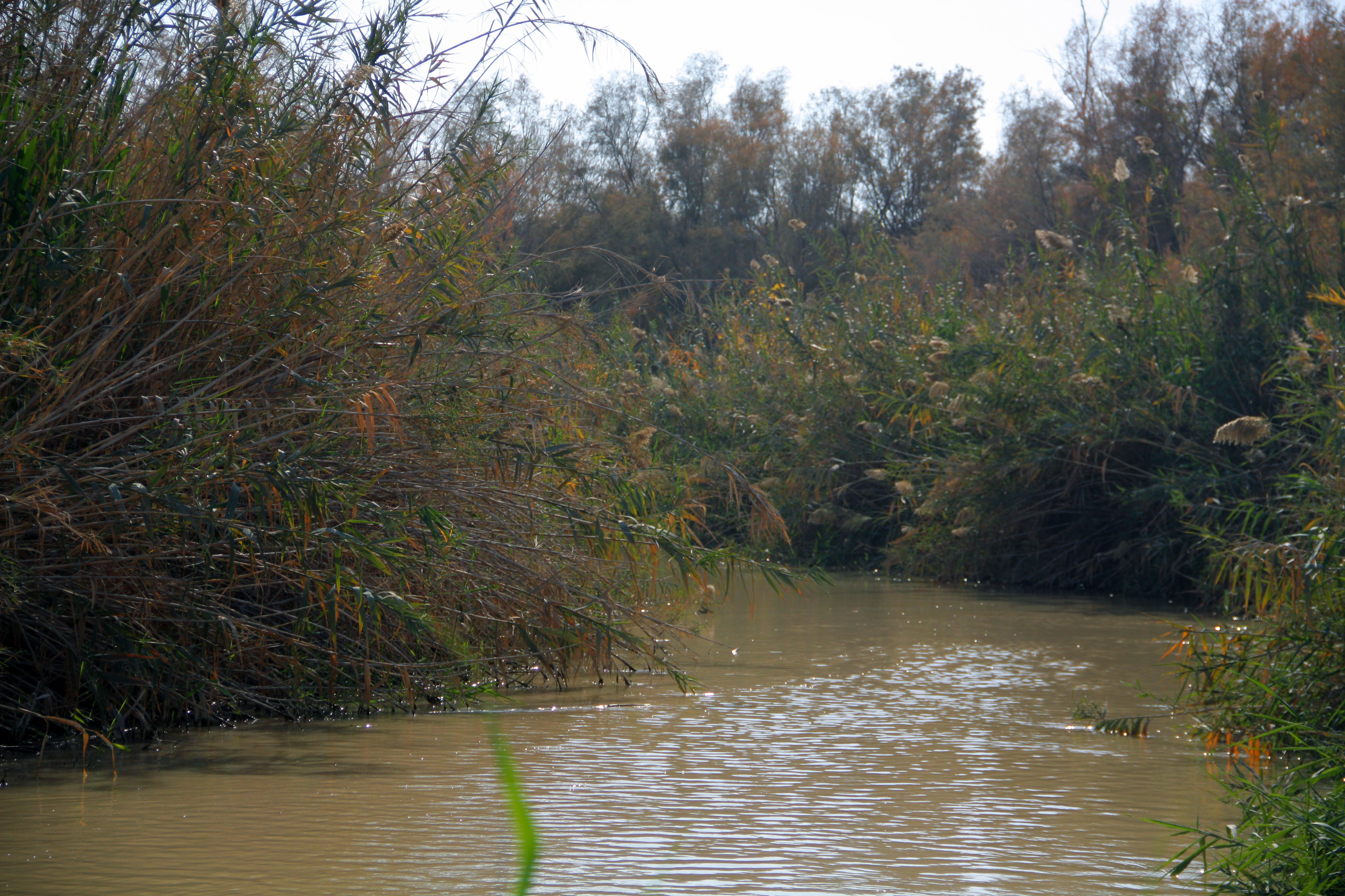 Jordan River